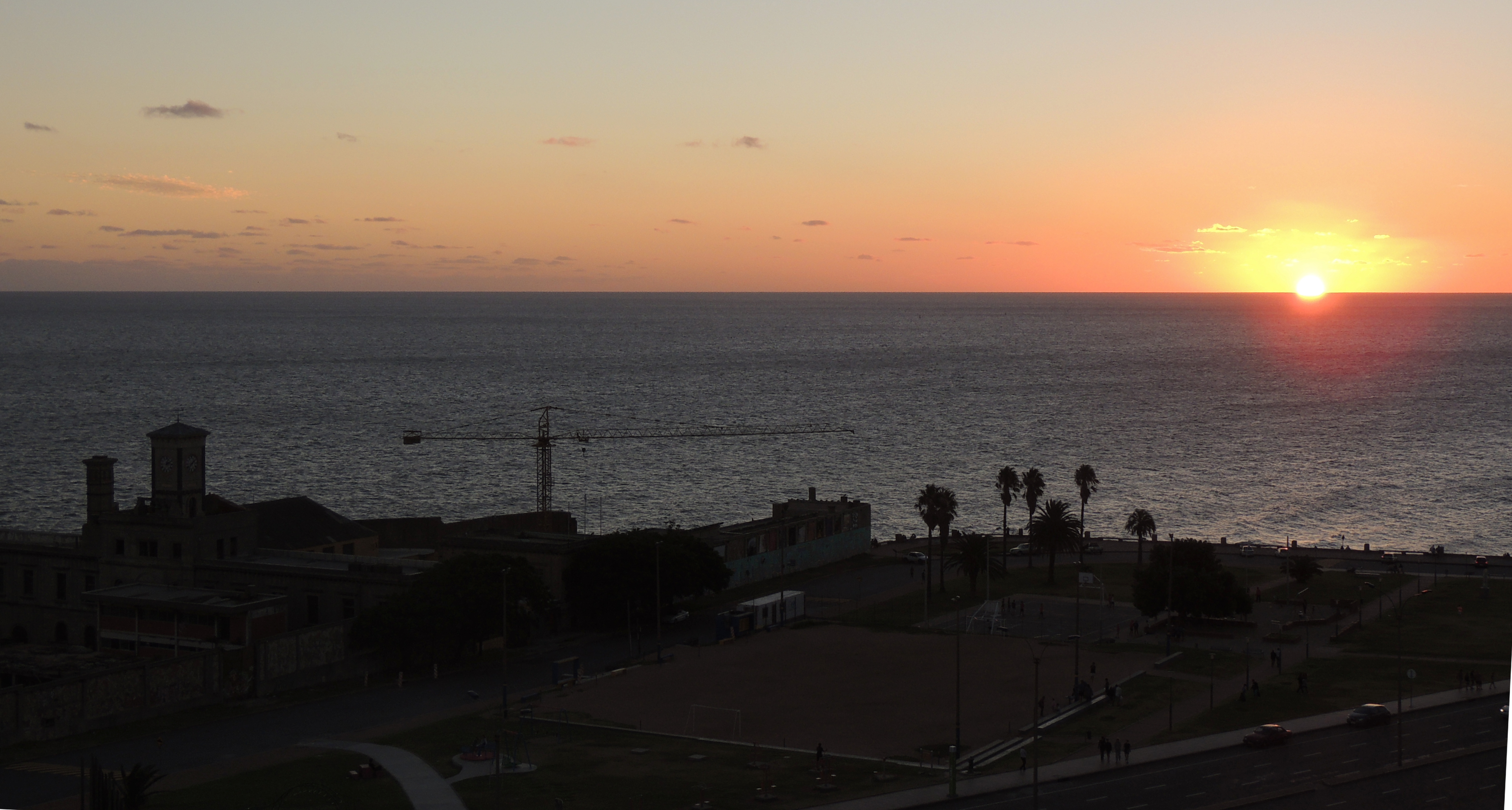 Sunset in Montevideo, Uruguay in summer